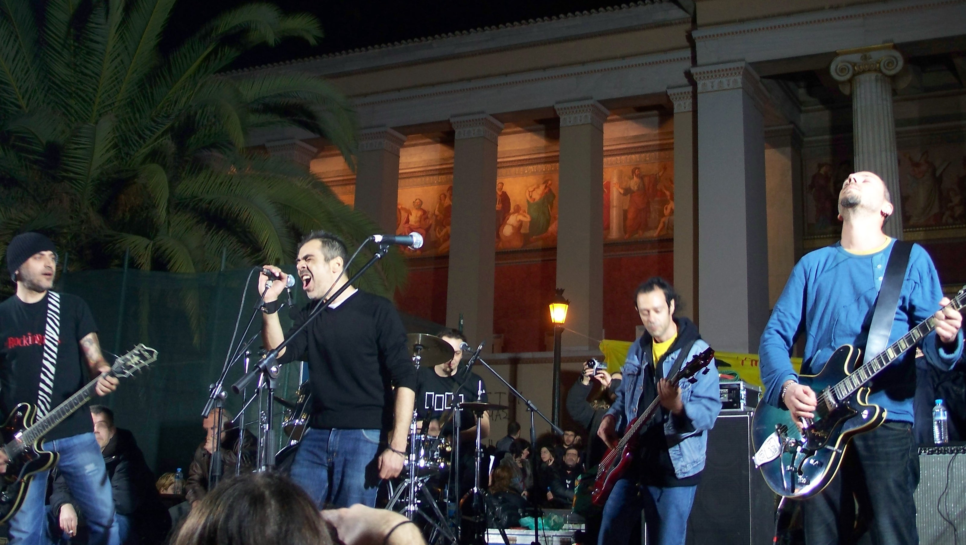 Greek indy band The Earthbound.